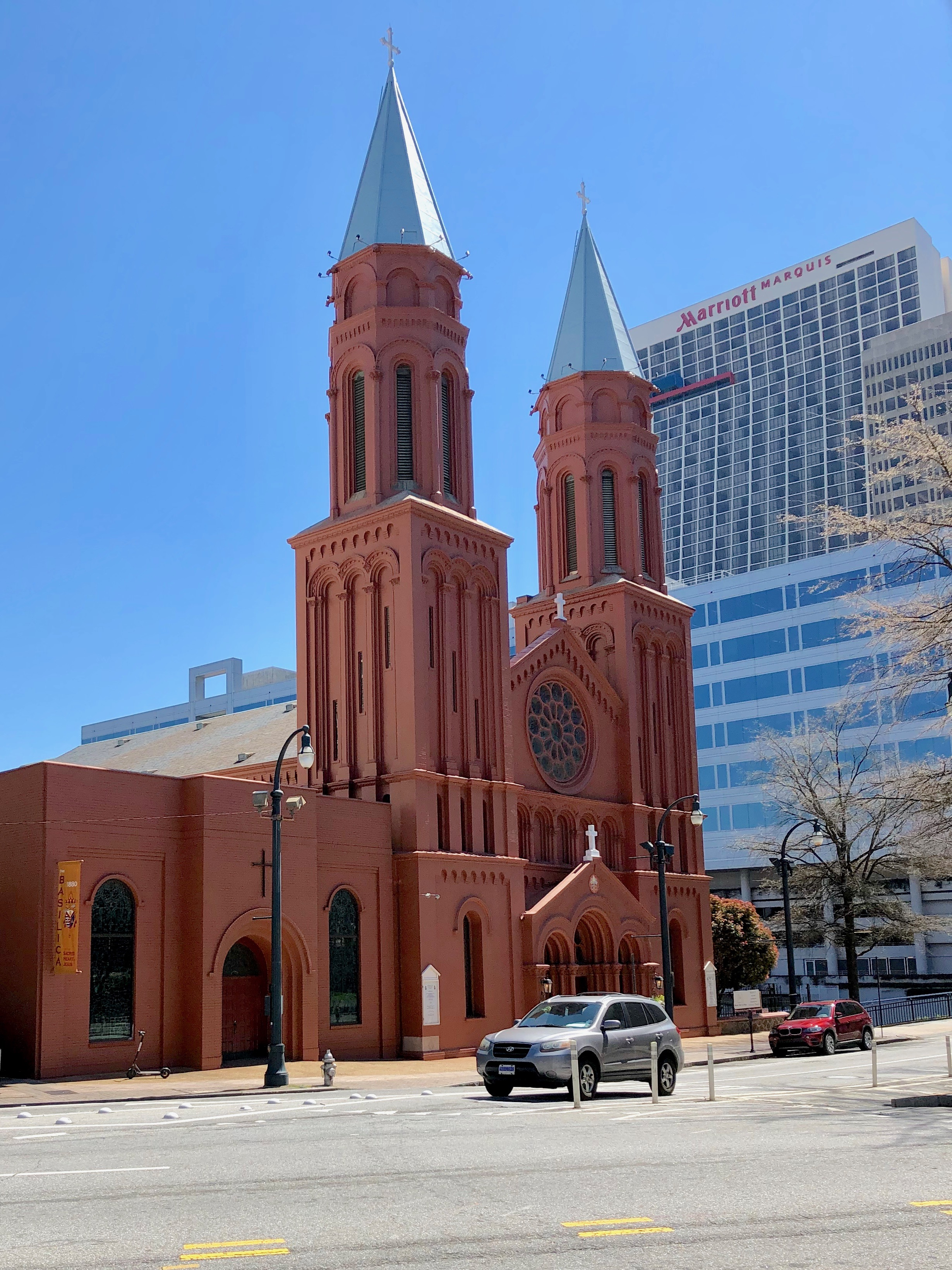 Basilica of the Sacred Heart of Jesus, Atlanta, GA